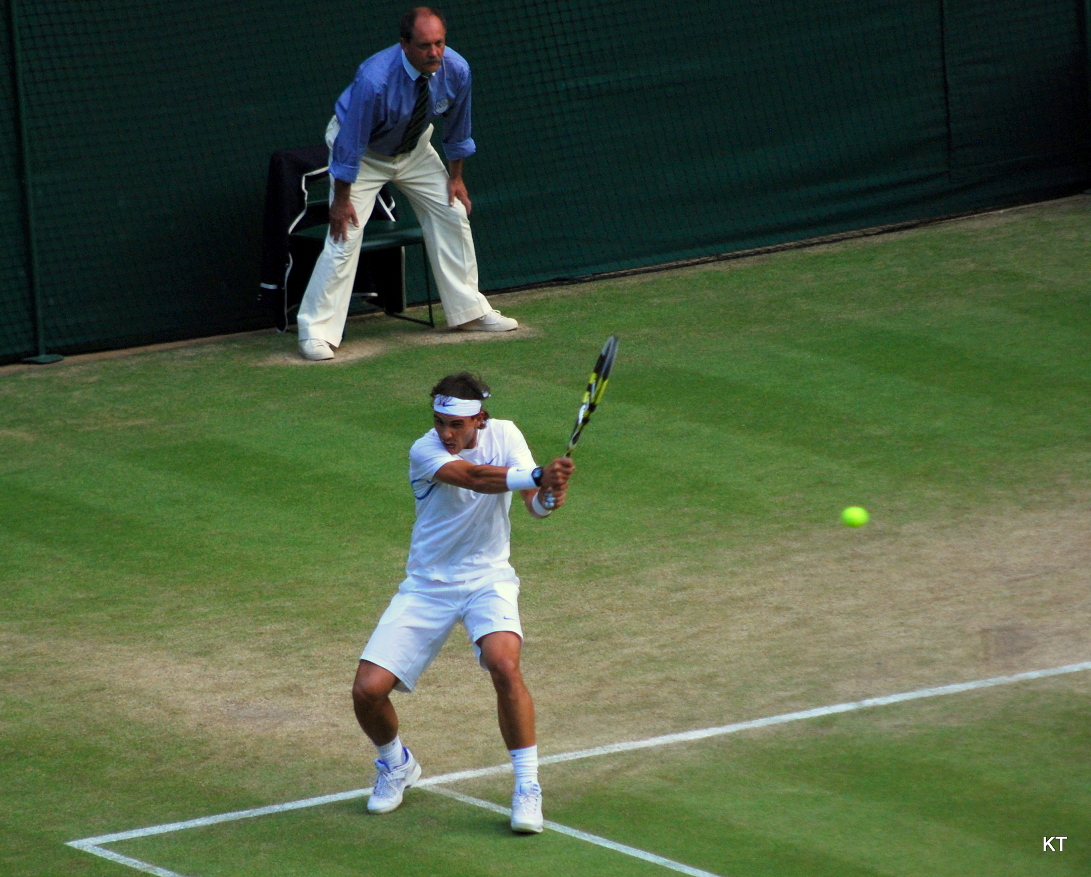 Rafael Nadal during his semi-final with Andy Murray . Nadal won 5-7, 6-2, 6-2, 6-4. Day 11 of Wimbledon 2011.